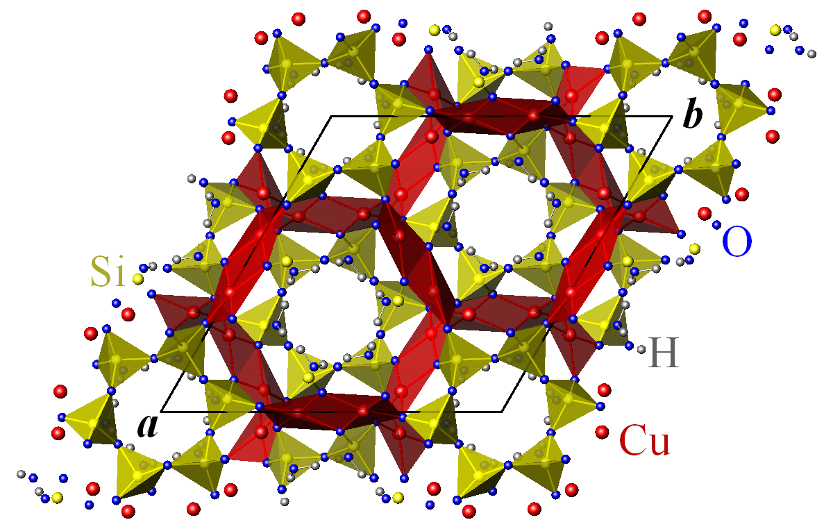 Crystal structure of dioptase, CuSiO3·H2O, R-3 (hexagonal cell), projected onto the (a,b) plane.